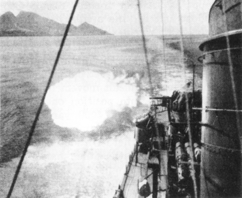 A U.S. destroyer provides gunfire support for U.S. forces on Guadalcanal during actions in early November, 1942.